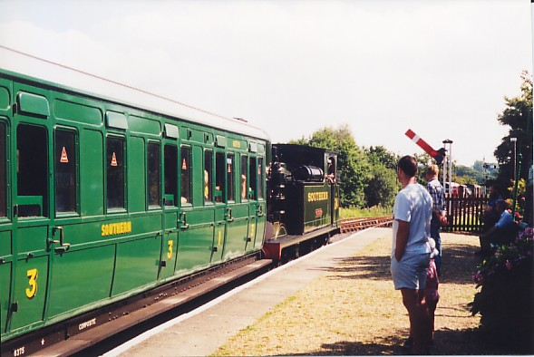 Wootton station, Isle of Wight Steam Railway, Isle of Wight, near England with a train hauled by Class O2 locomotive no 24 "Calbourne".